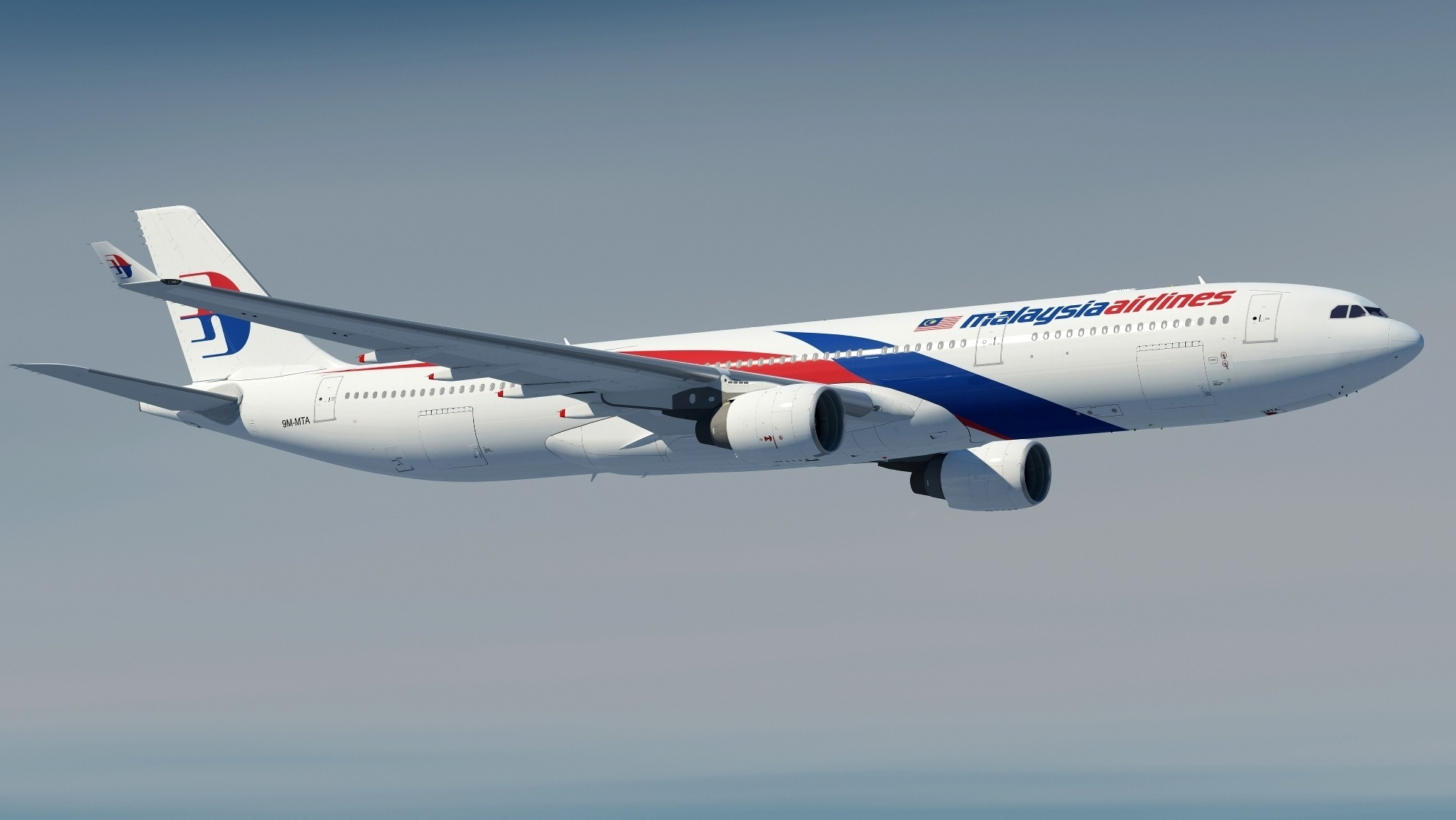 9M-MTA aircraft